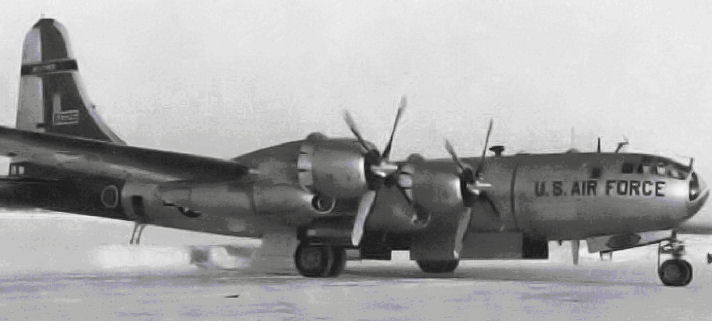 WB-50 of the 58th Weather Squadron Eielson AFB Alaska Source - USAF